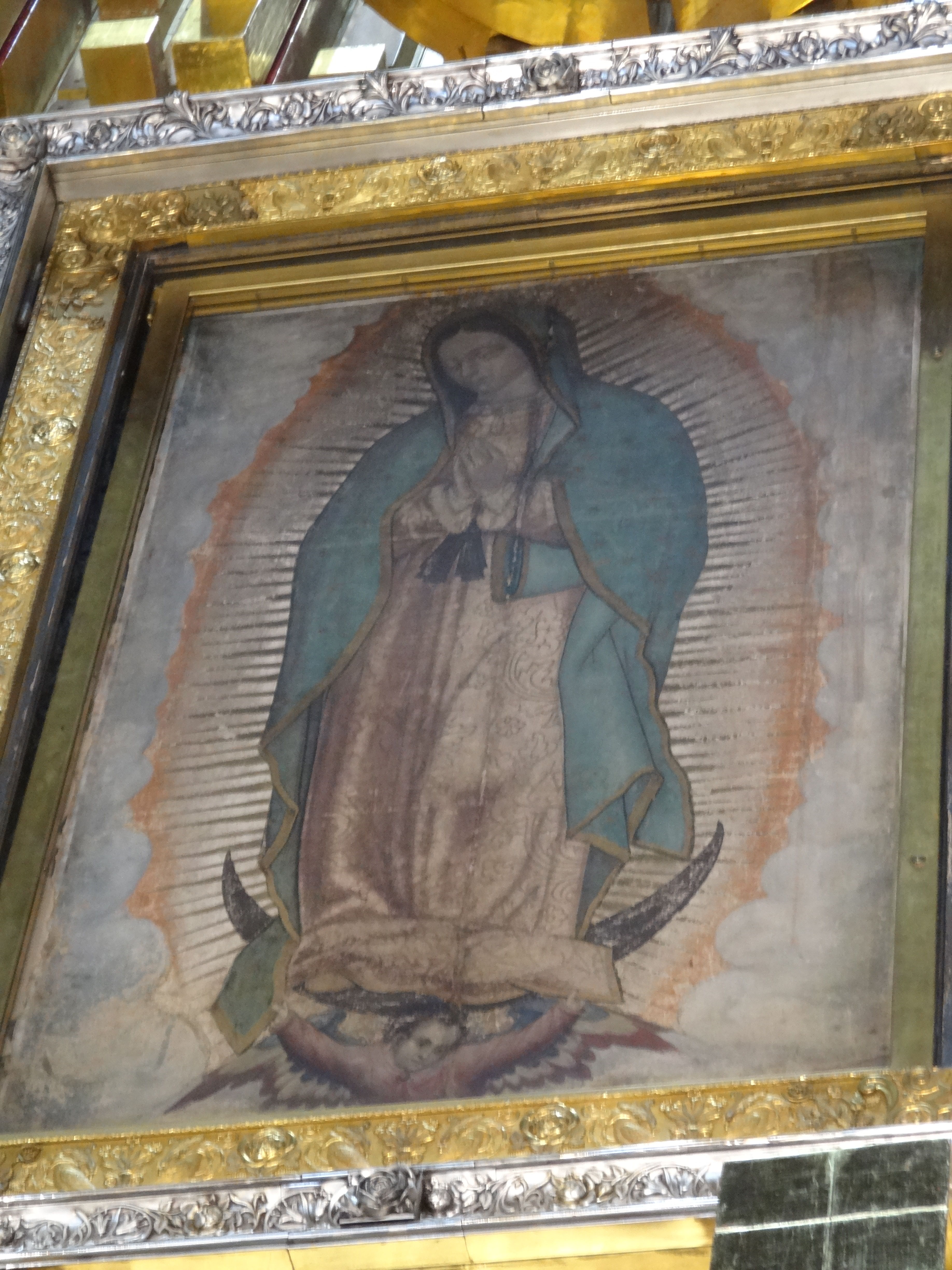 Nueva Basílica de Nuestra Señora de Guadalupe